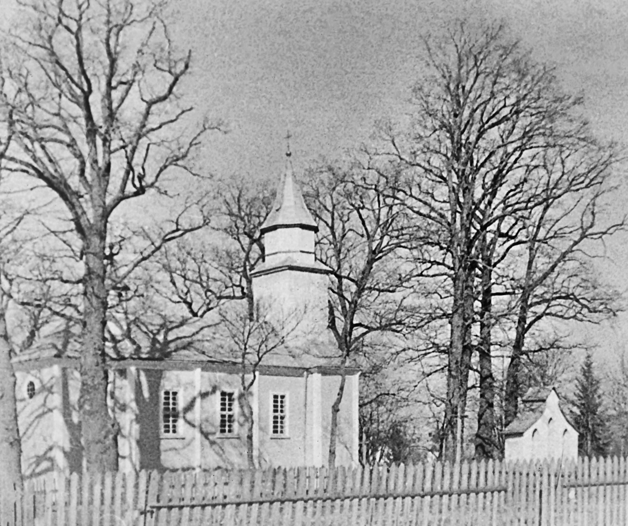 Sołotwina, parish church (catholic, today greek catholic); 1936 (?; before 1939)